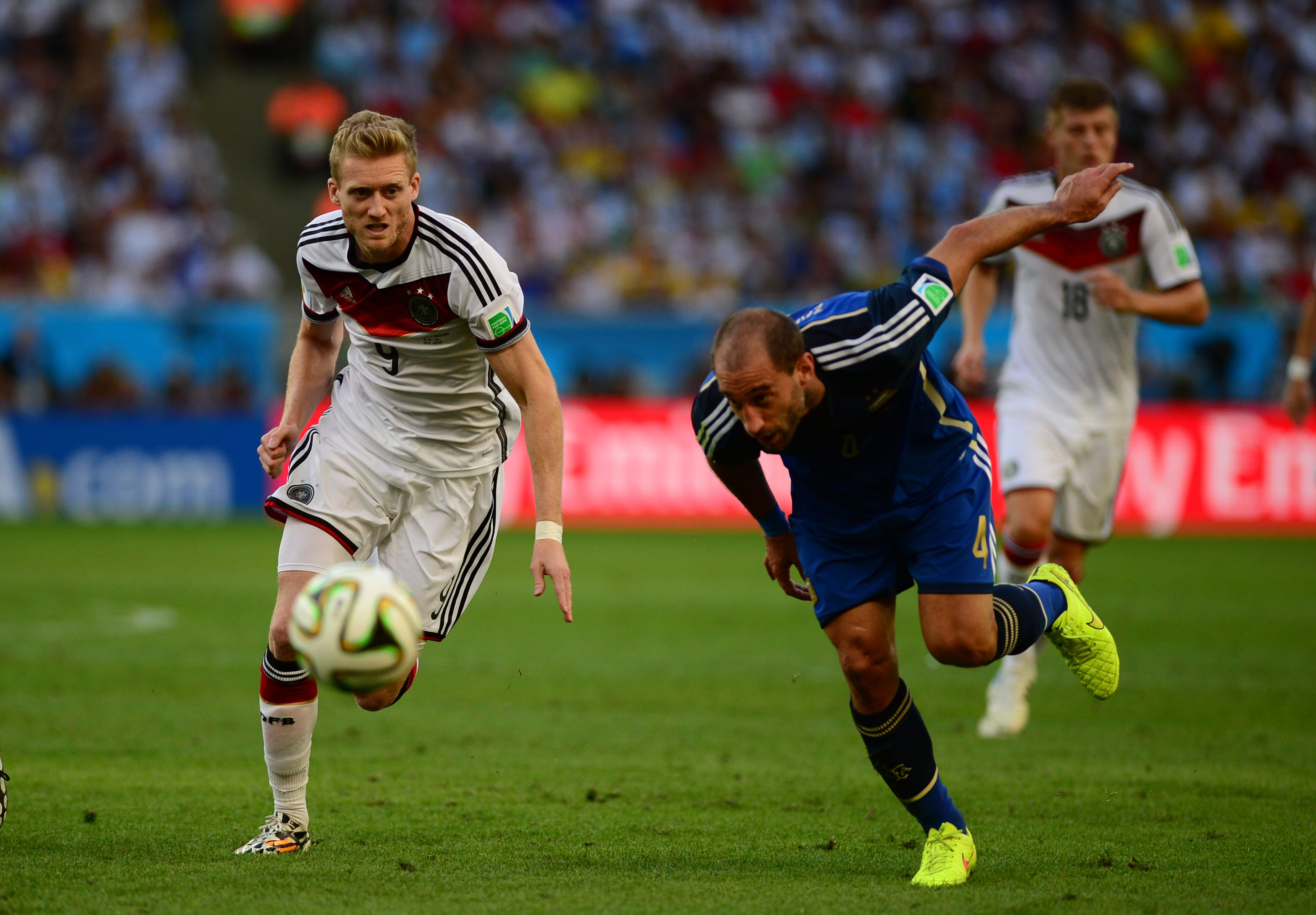 Germany and Argentina face off in the final of the World Cup